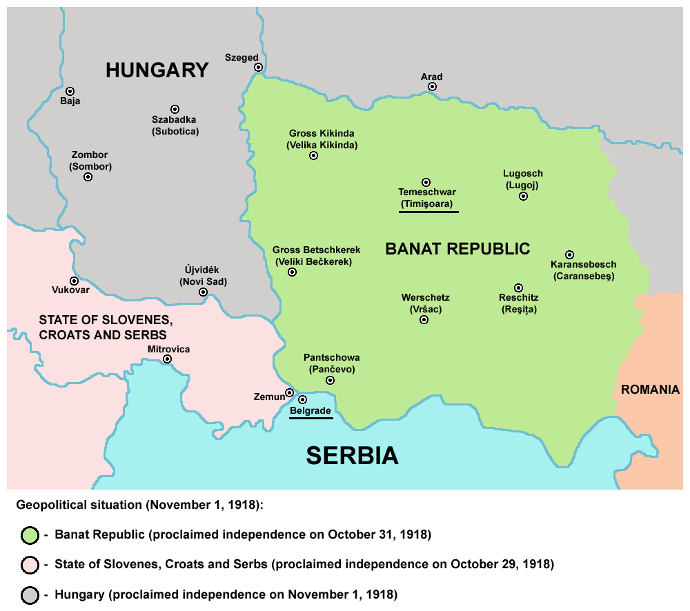 Historical map of Banat Republic in 1918.